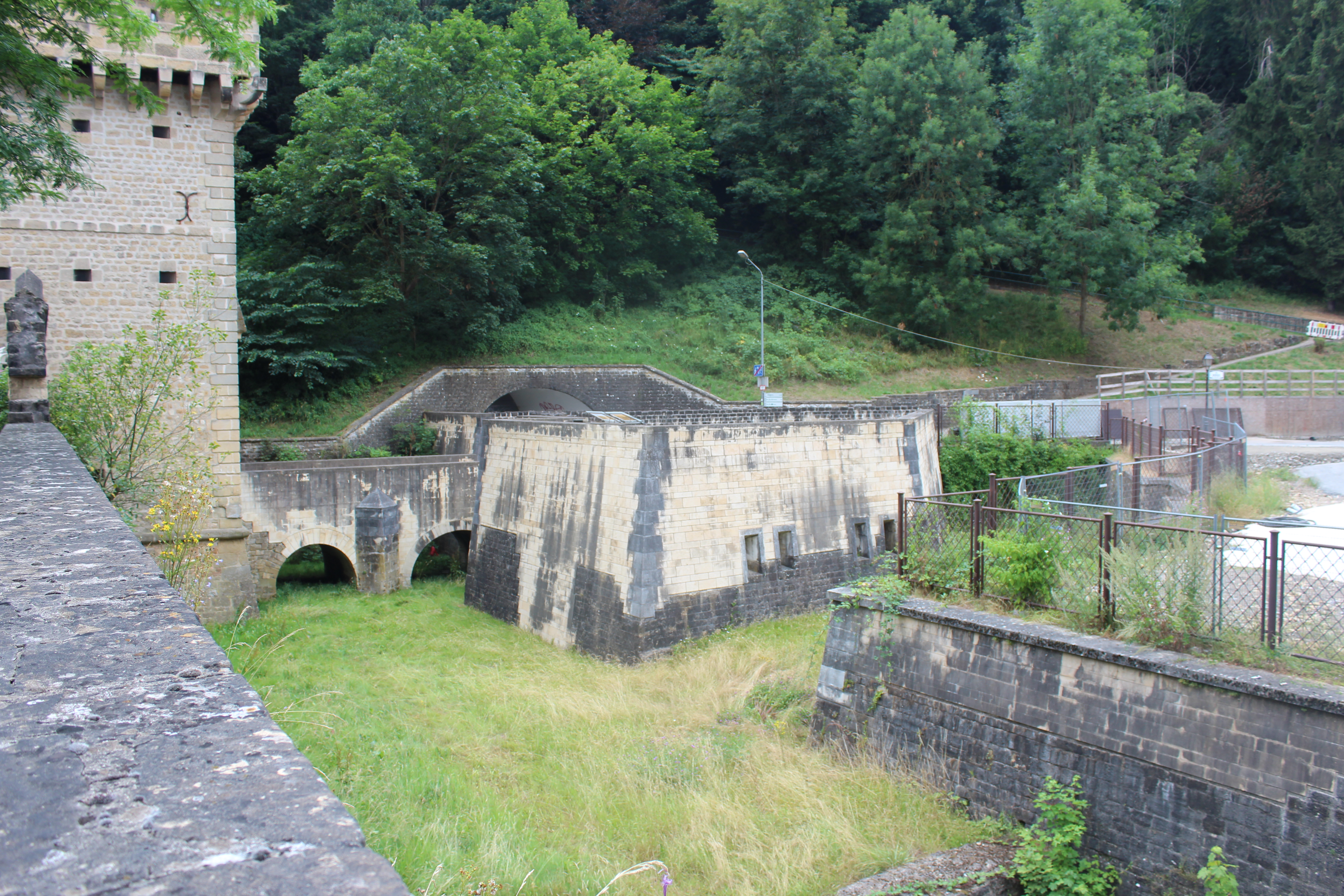 Ravelin and ditch in Front of Porte d'Eich/Eecherpaart, a former entrance gate to the fortress Luxembourg.